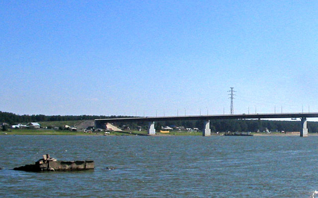 A bridge over Ob River in Tomsk Oblast, Shegarsky raion (Russia).